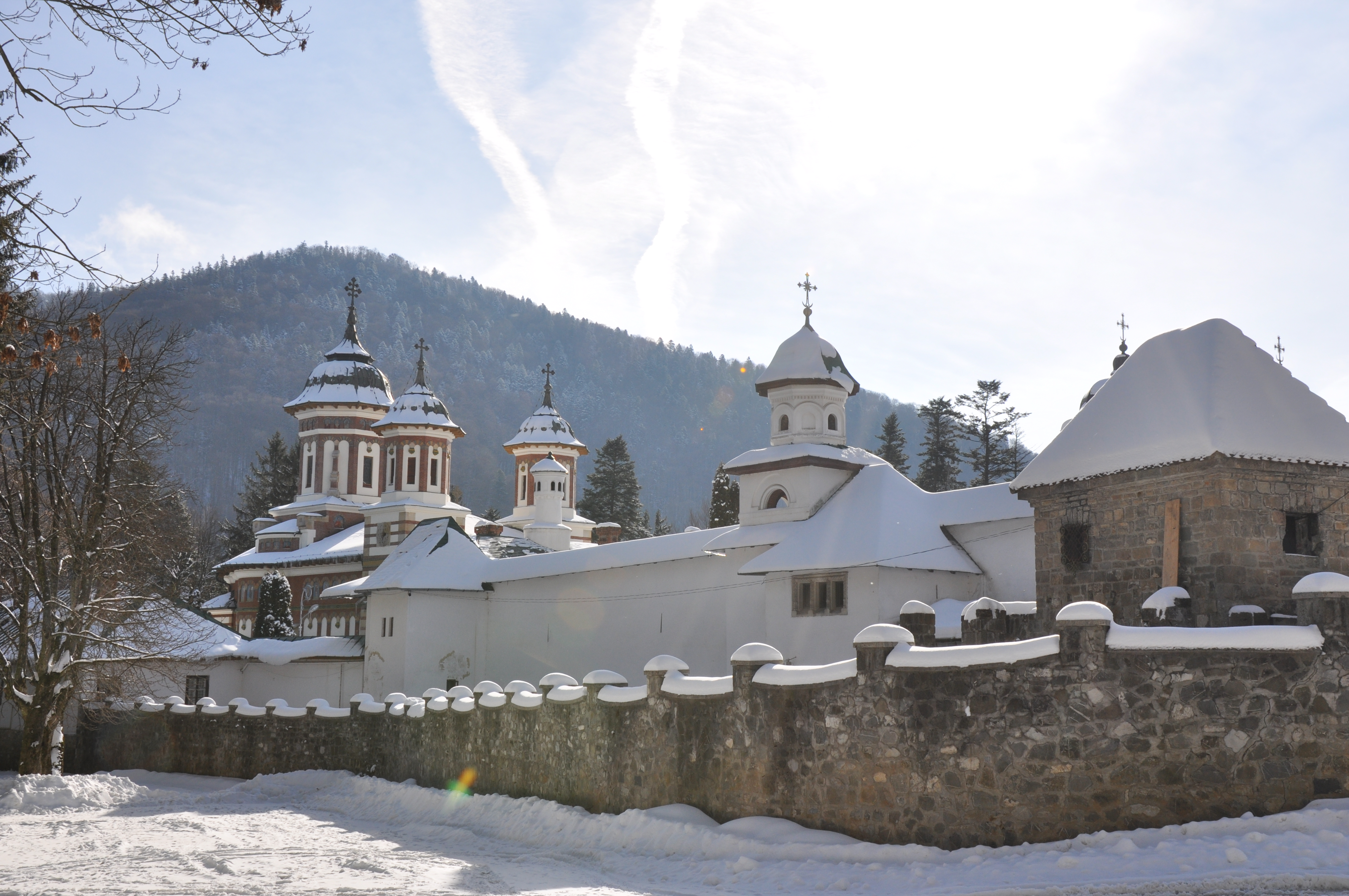 Sinaia Monastery